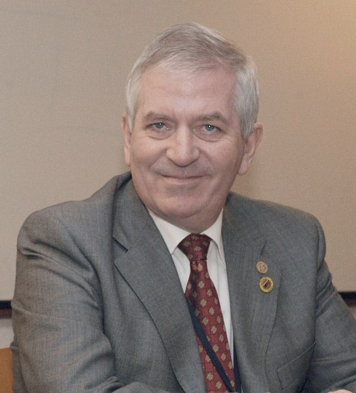 Irish Finance Minsiter Charlie McCreevy.